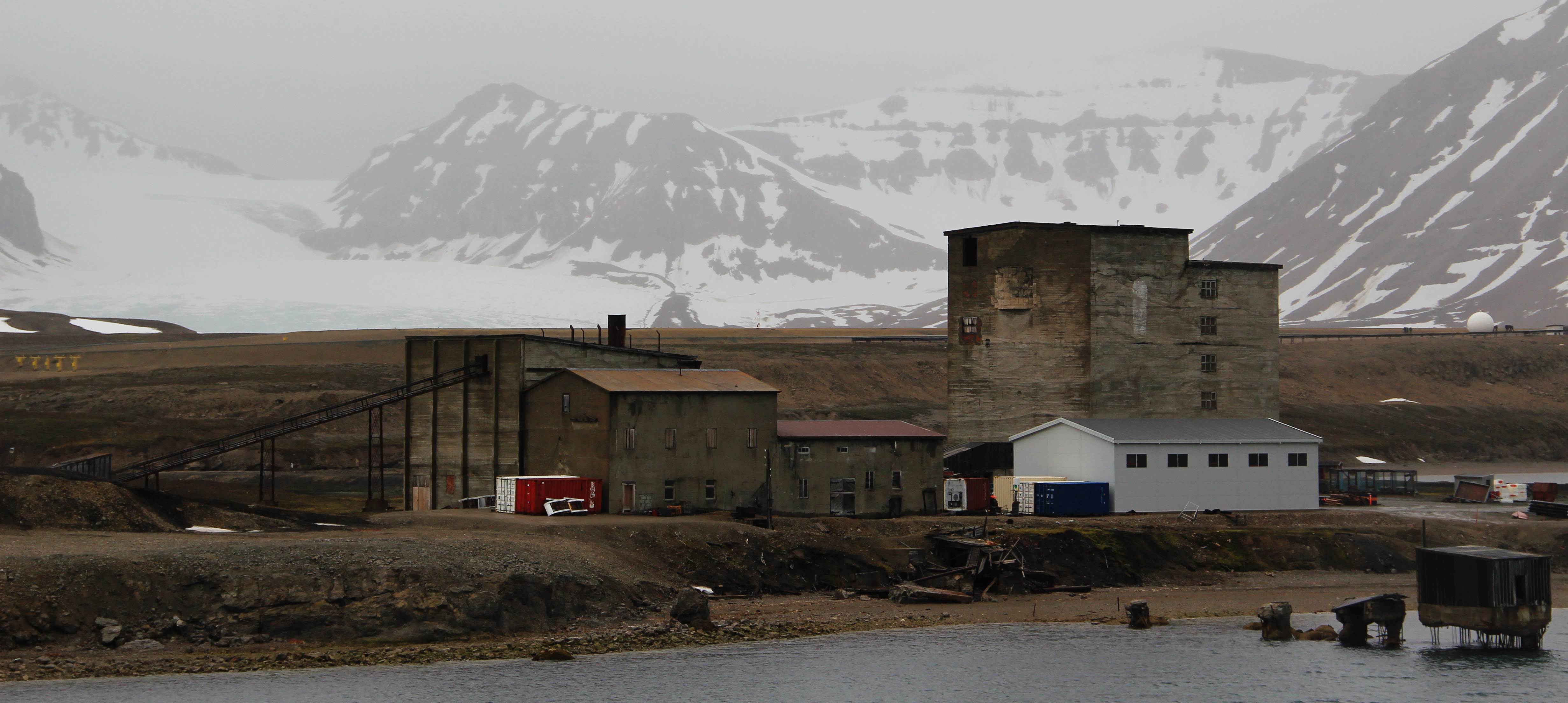 Abandoned Mine, Ny-Ålesund